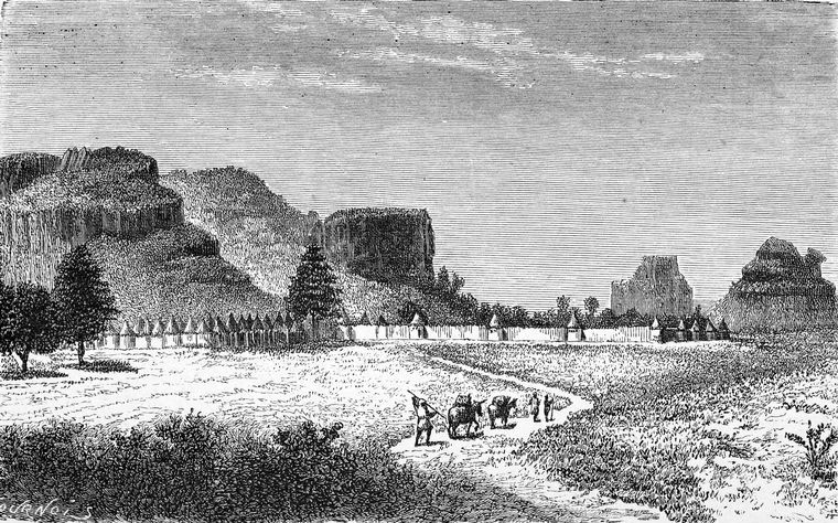 View of Koundian